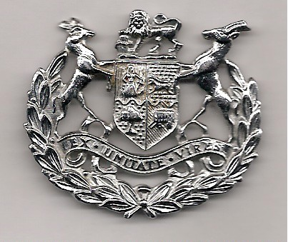 Badge of rank worn by a Warrant Officer Class 1 in the South African Defence Force i.e. prior to the establishment of the South African National Defence Force in 1994